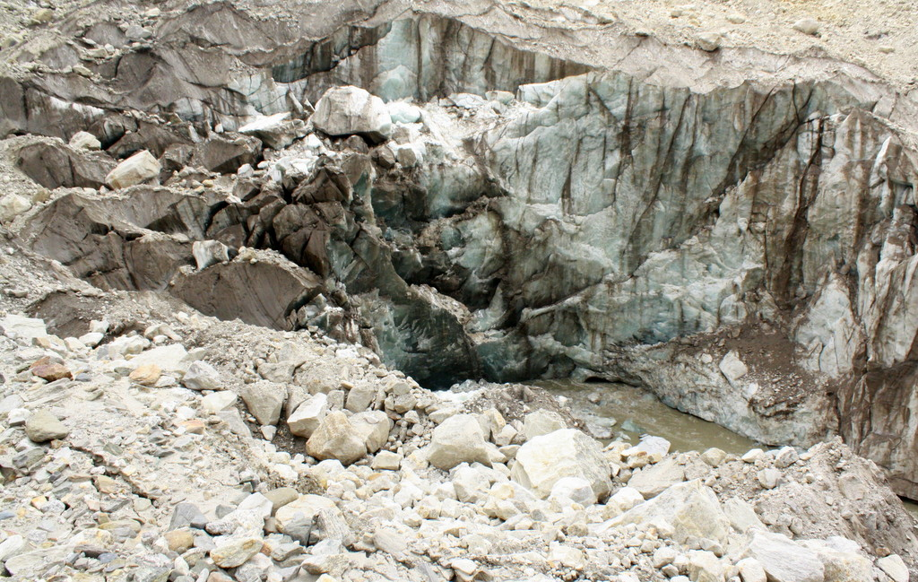 The snout point of Gongotri Glacier, Gomukh ,India